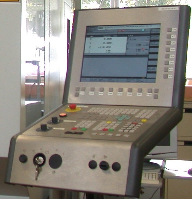 Photograph taken by Glenn McKechnie on 26th August 2005.